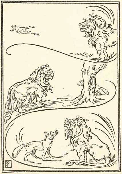 An illustration by Richard Heighway (1832-1917 ?) of Joseph Jacobs' collection of Aesop's Fables (London, 1894)